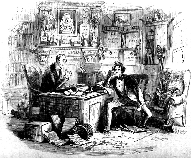 Attorney and Client: Fortitude and Impatience by "Phiz" (Hablot Knight Browne) for Bleak House, p. 388 (ch. 34, "Attorney and Client"). 4 3/16 x 5 inches